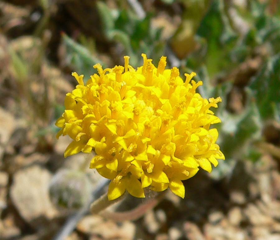 Photo of Trichoptilium incisum in Palm Canyon, California